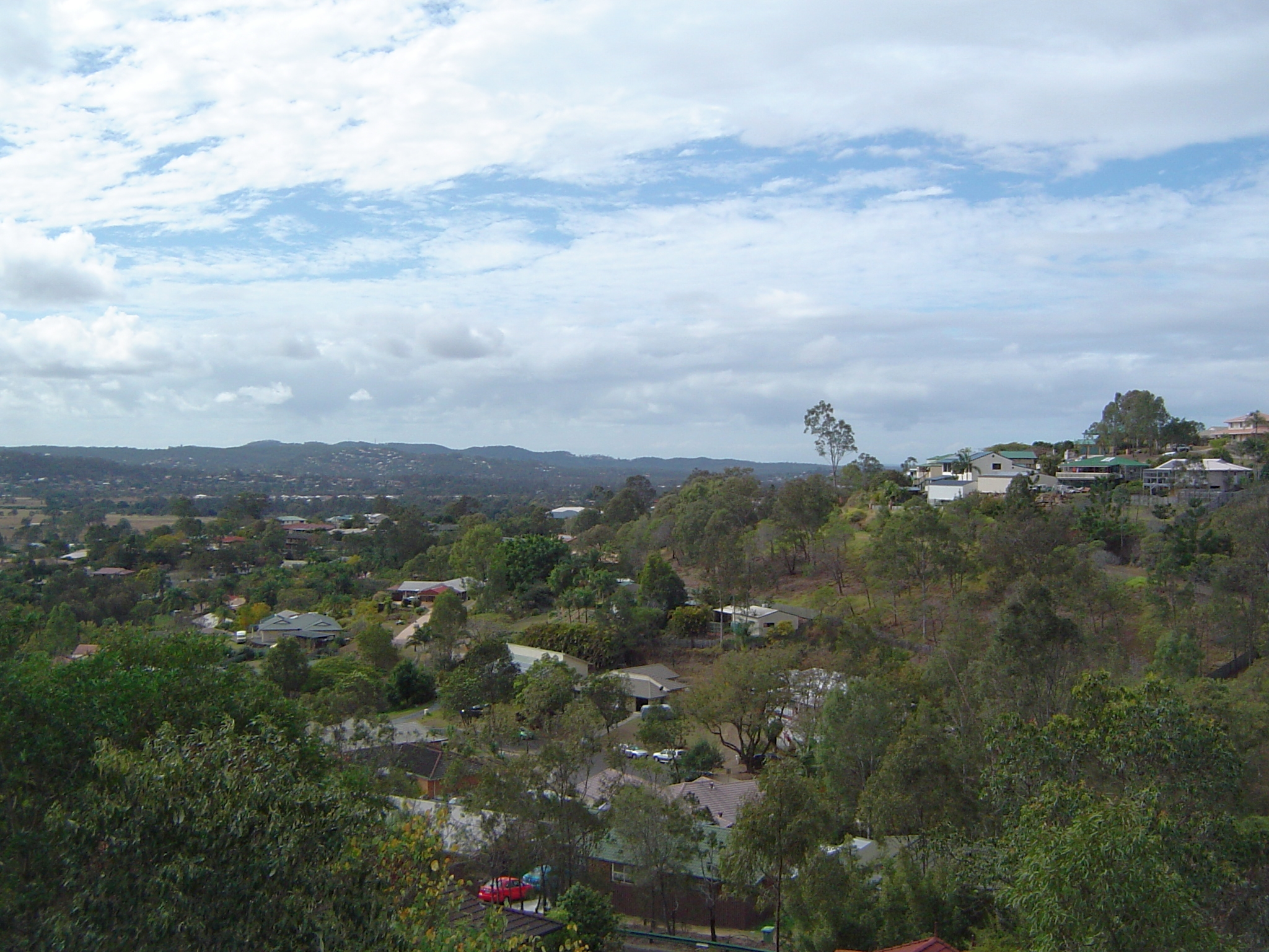 Photo of houses in Edens Landing, Logan City, Queensland, Australia. The suburbs of Meadowbrook, Tanah Merah and Shailer Park can be seen in the background. The Logan River and Logan Motorway also pass through the area in the background.